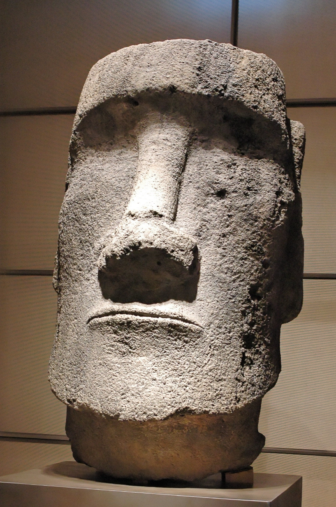 Fragment of a moai. Basaltic tuff, Anakena Bay (Easter Island), 11th–15th century.